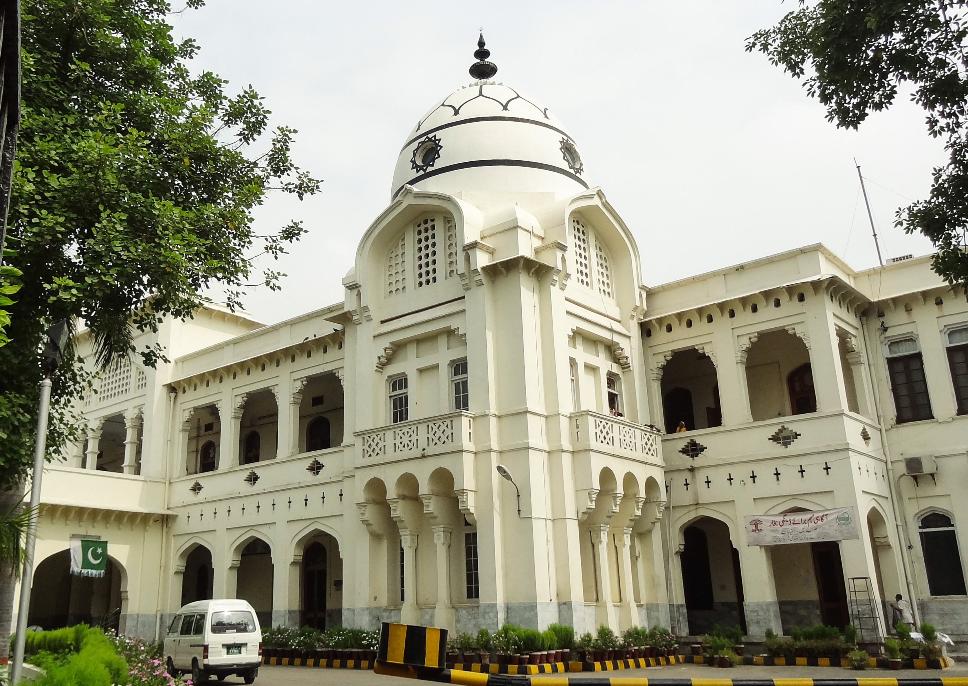 King Edward Medical University This is a photo of a monument in Pakistan identified as the PB-P-64